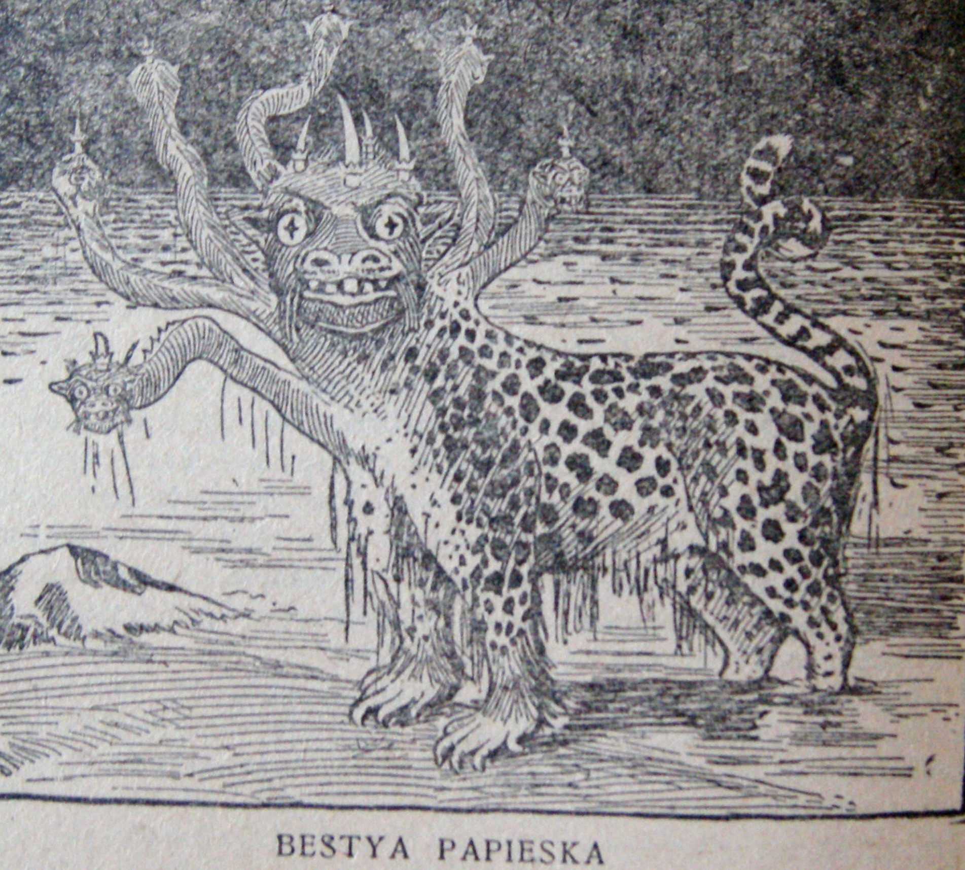 The Finished Mystery